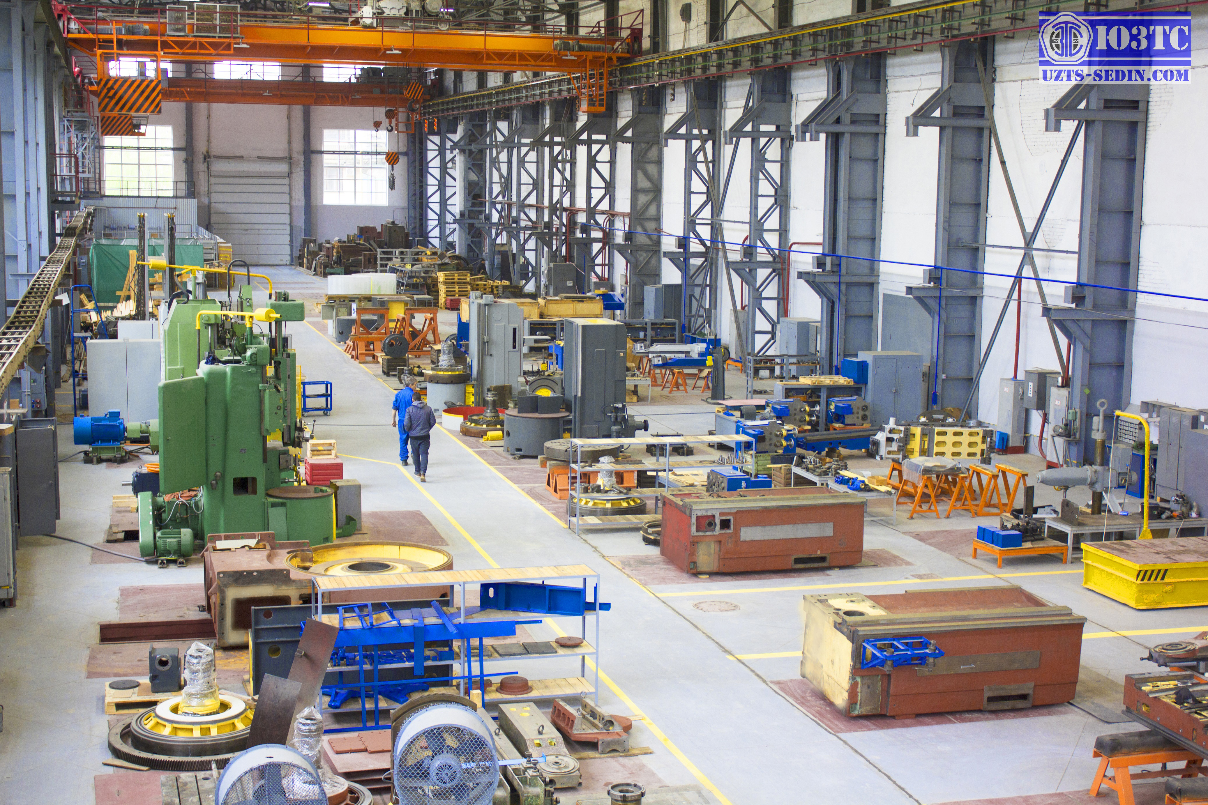 Сборочный цех ООО «ЮЖНЫЙ ЗАВОД ТЯЖЁЛОГО СТАНКОСТРОЕНИЯ» - ЮЗТС (бывший сборочный цех завода им. Г.М.Седина)